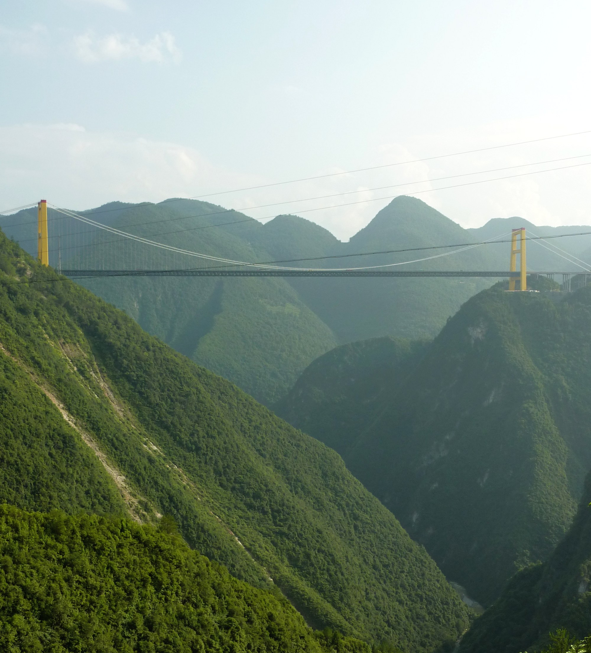 The Si Du River Bridge (Siduhe Bridge, 四渡河特大桥) is a 4,010 foot (1,222 m) long suspension bridge crossing the valley of the Si Du River near Yesanguan in Badong County of the Hubei Province of the People's Republic of China.